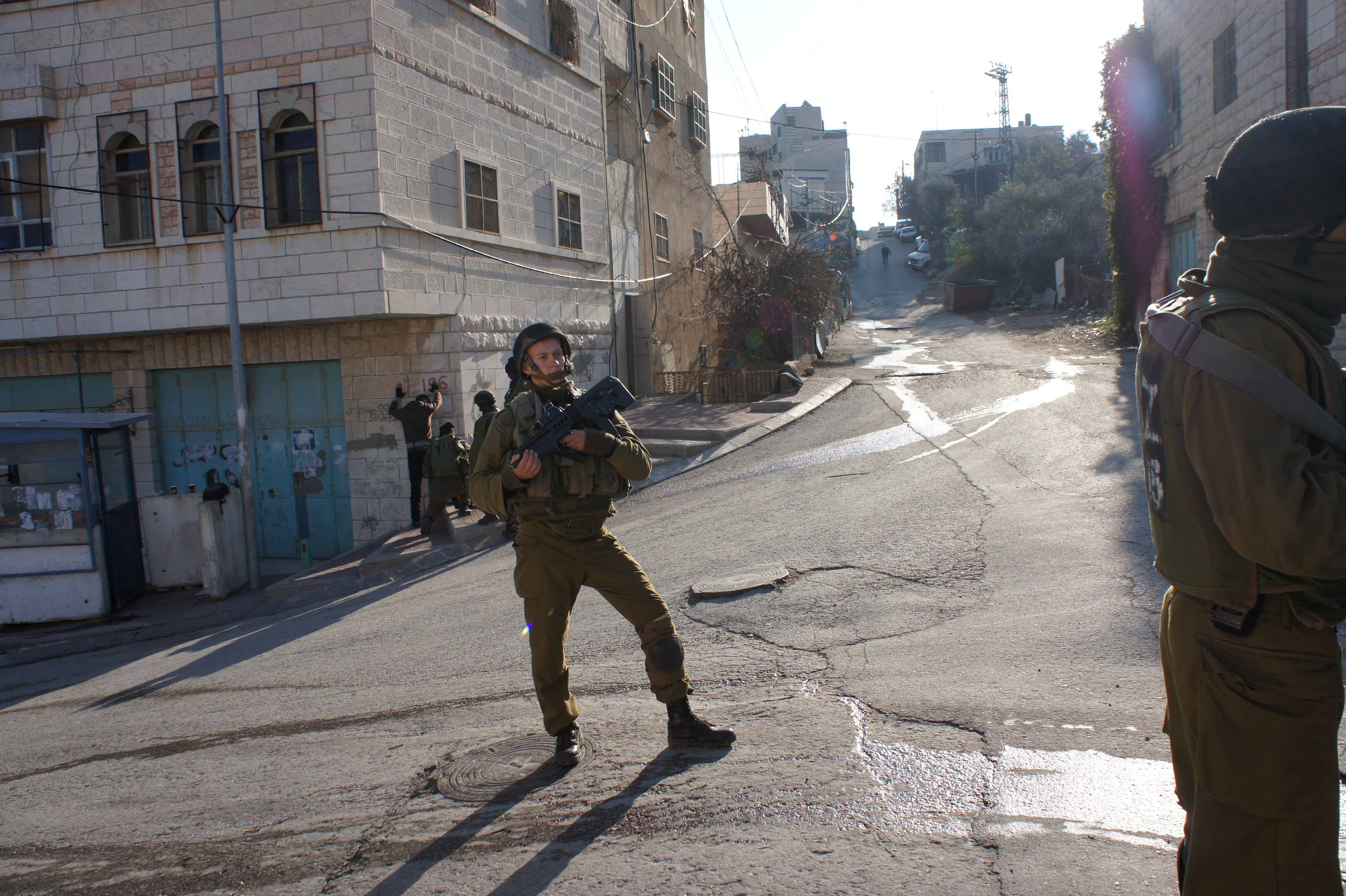 Golani soldiers searching Palestinians in Tel Rumaida, by Gilbert checkpoint. Palestinians are routinely searched or detained.